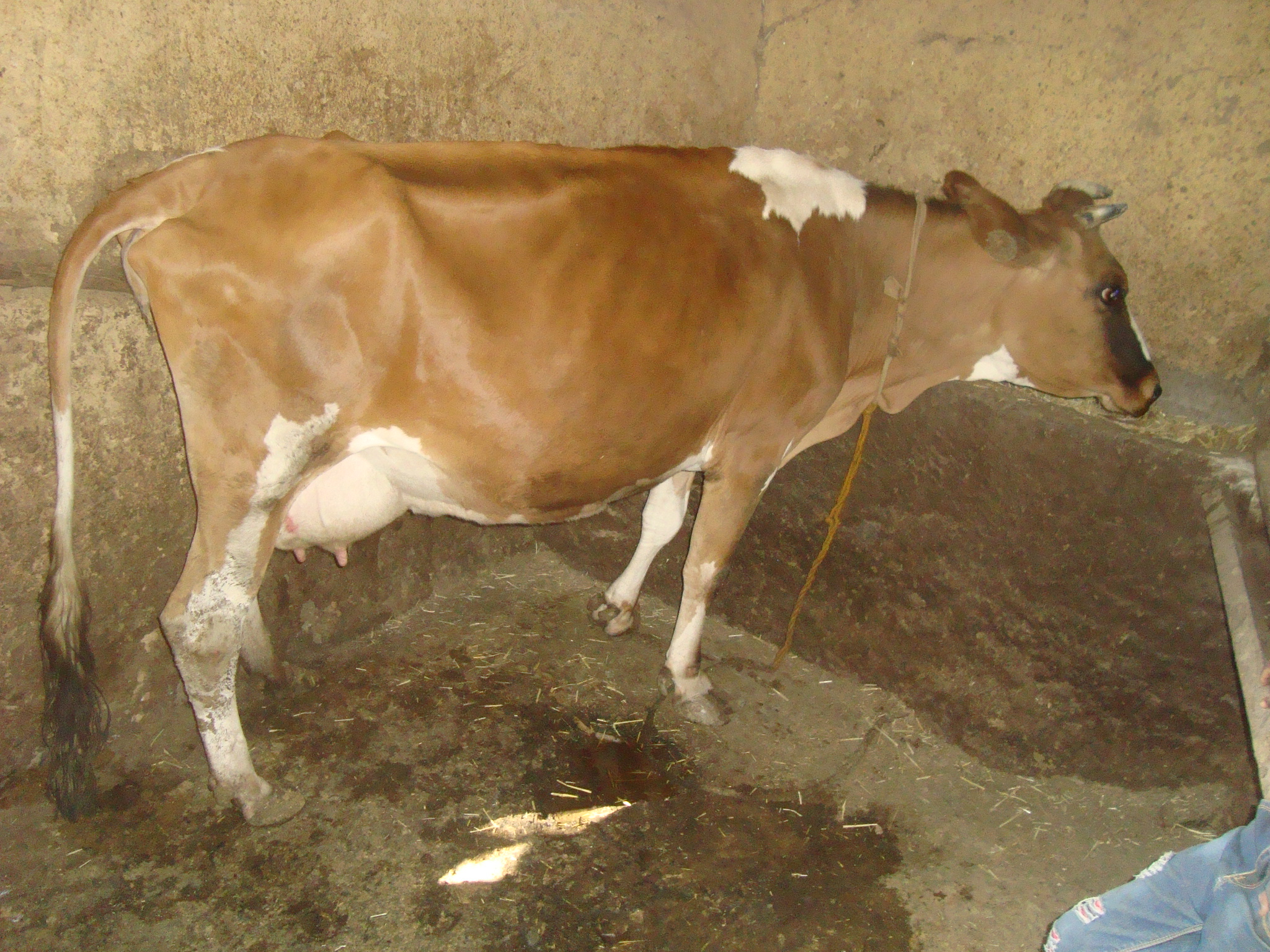 Crossbred Arado x Holstein-Friesian milk cow in Dogu'a Tembien, Ethiopia